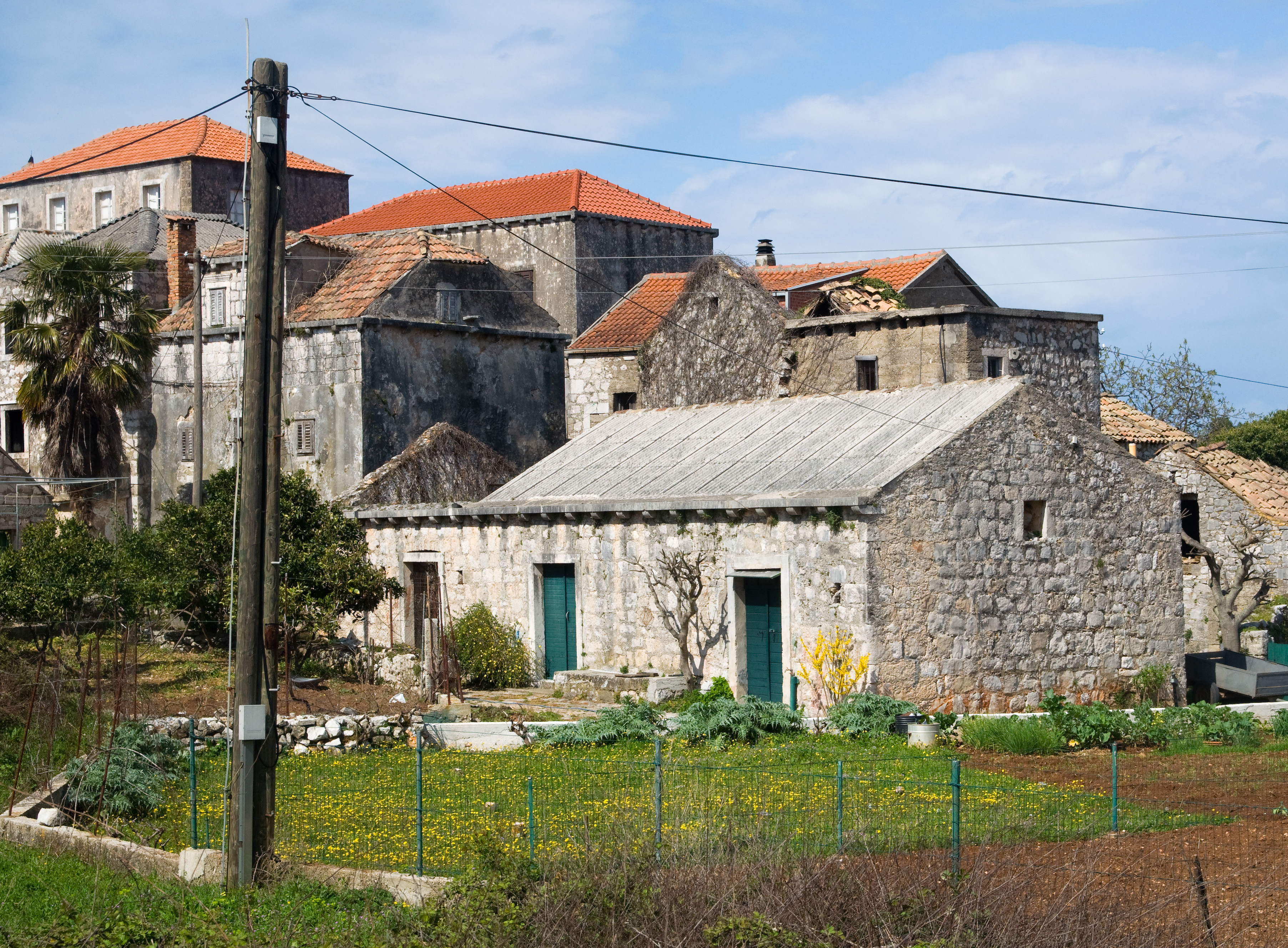 Buildings in the village of Janjina, Croatia.